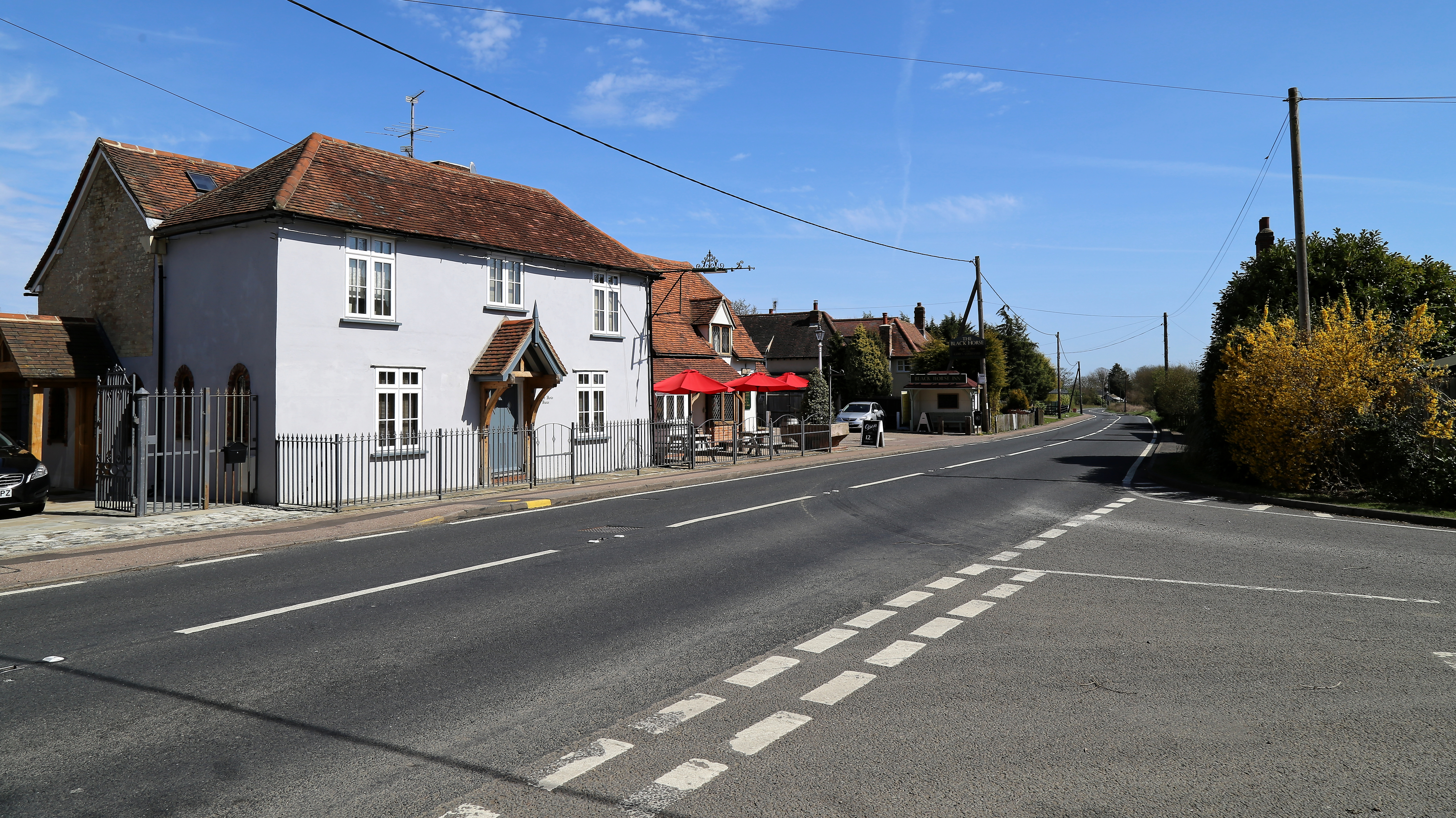 The A1060 Bishop's Stortford to Sandon road looking east at the junction with Church lane, and the Black Horse Inn, in the village of White Roding, Essex, England.Software: JPEG file optimized and/or cropped and/or spun with DxO OpticsPro 10 Elite and Adobe Photoshop CS2.